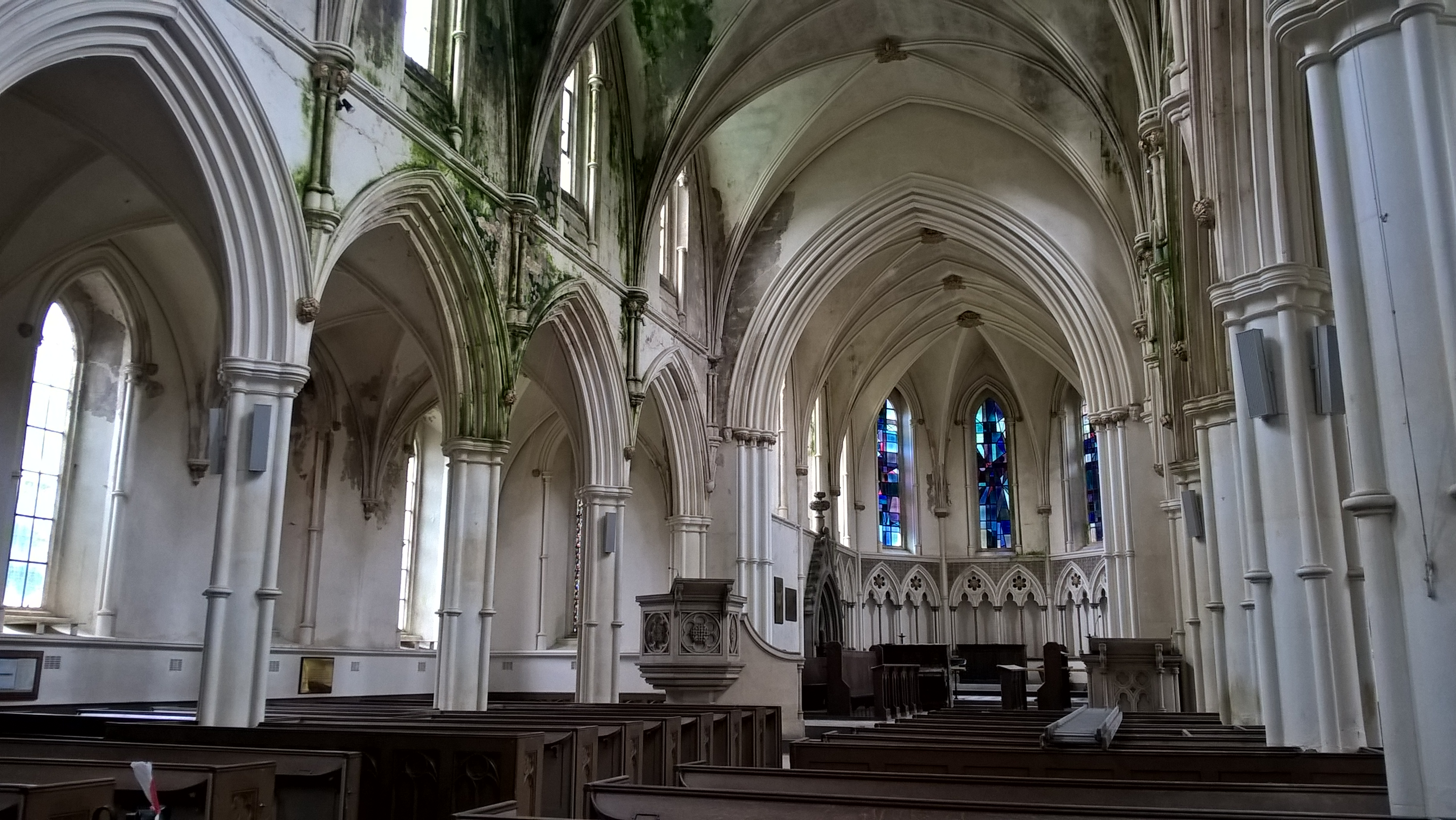 Inside the parish church of St John the Evangelist, Oulton, West Yorkshire, looking east to the apsidal chancel. The green colour centre left is from water damage resulting from the theft of lead from the roof in 2014.